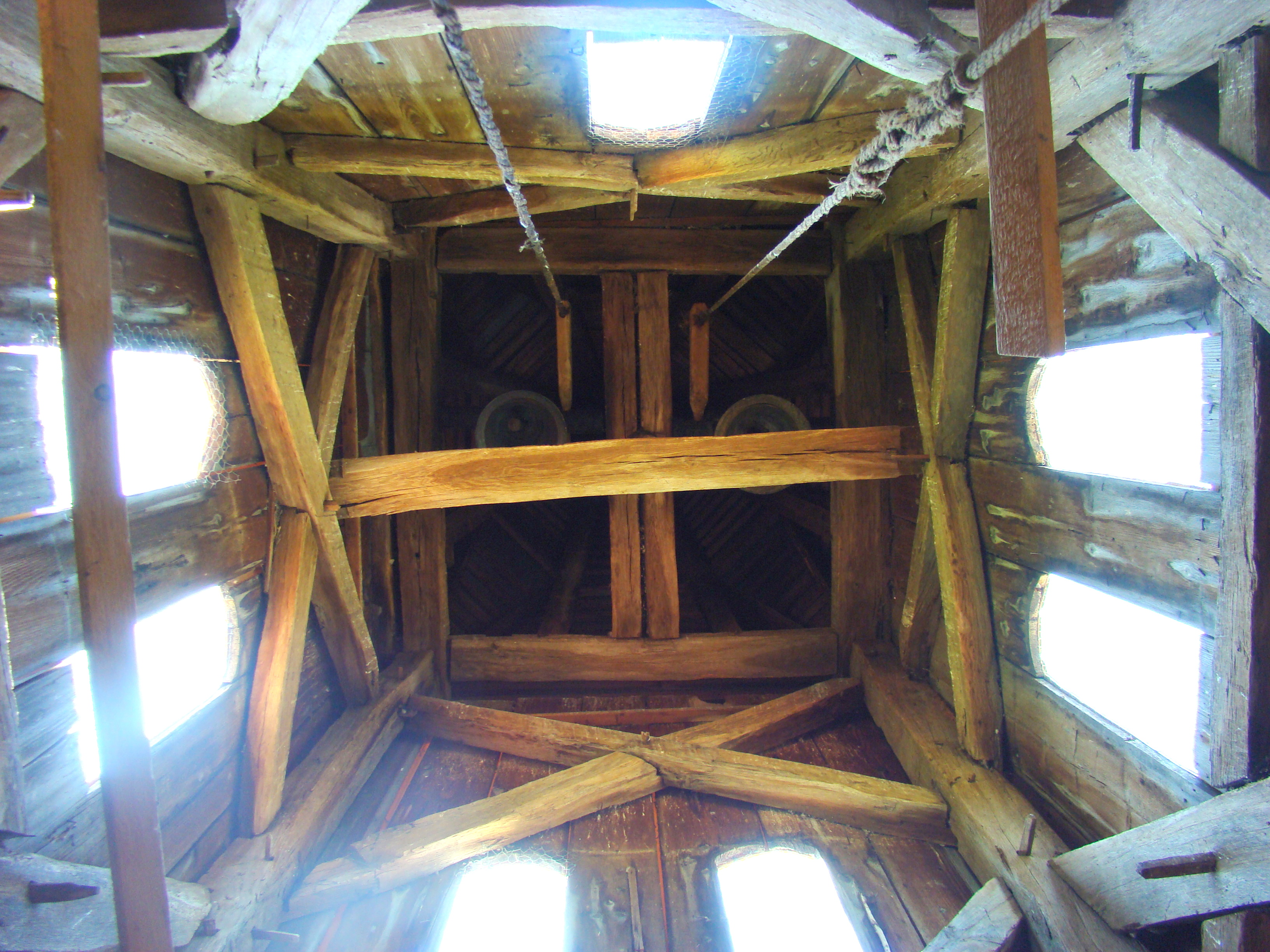 The wooden church in Stoboru, Sălaj county, Romania